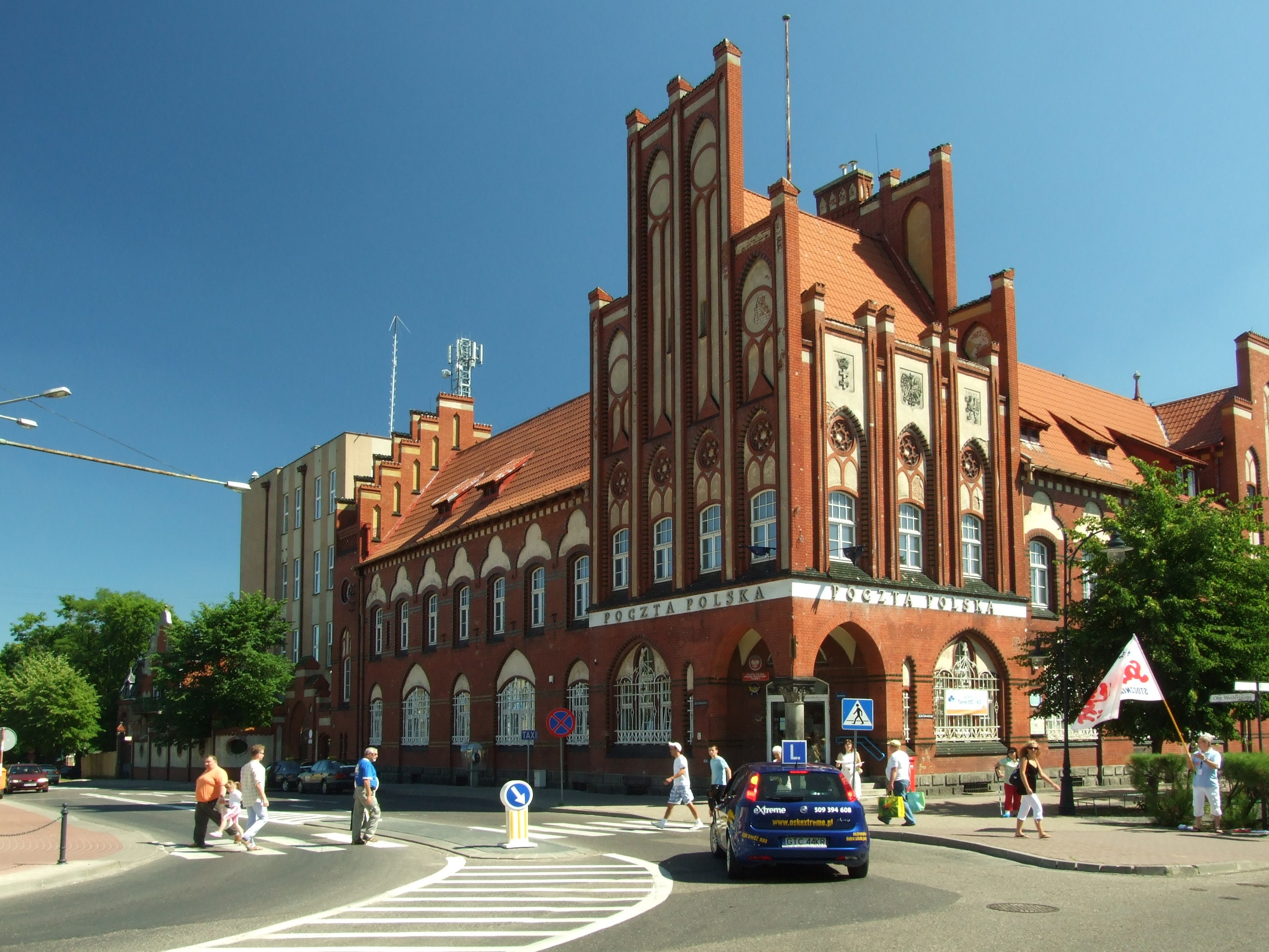 Neo-gothic post office building in Tczew, Pomeranian voivodeship, Poland